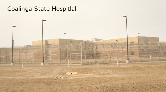 Coalinga State Hospital is clearly a prison labelled a hospital.